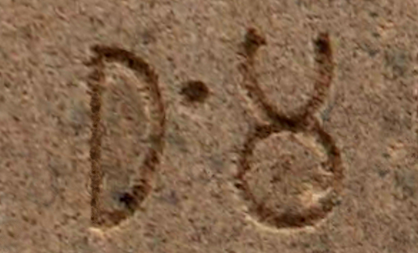 "Dhamma" inscription (on a pillar of Ashoka)